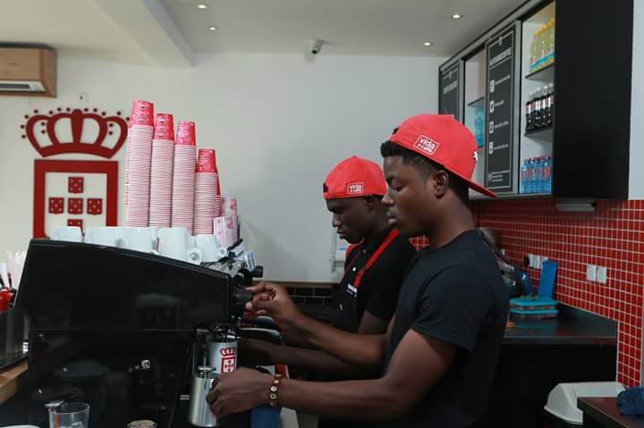 Coffee making is an art from within. We understand this art,so we make you a part of it. Life and Coffee. This is an image of "African people at work" from Ghana